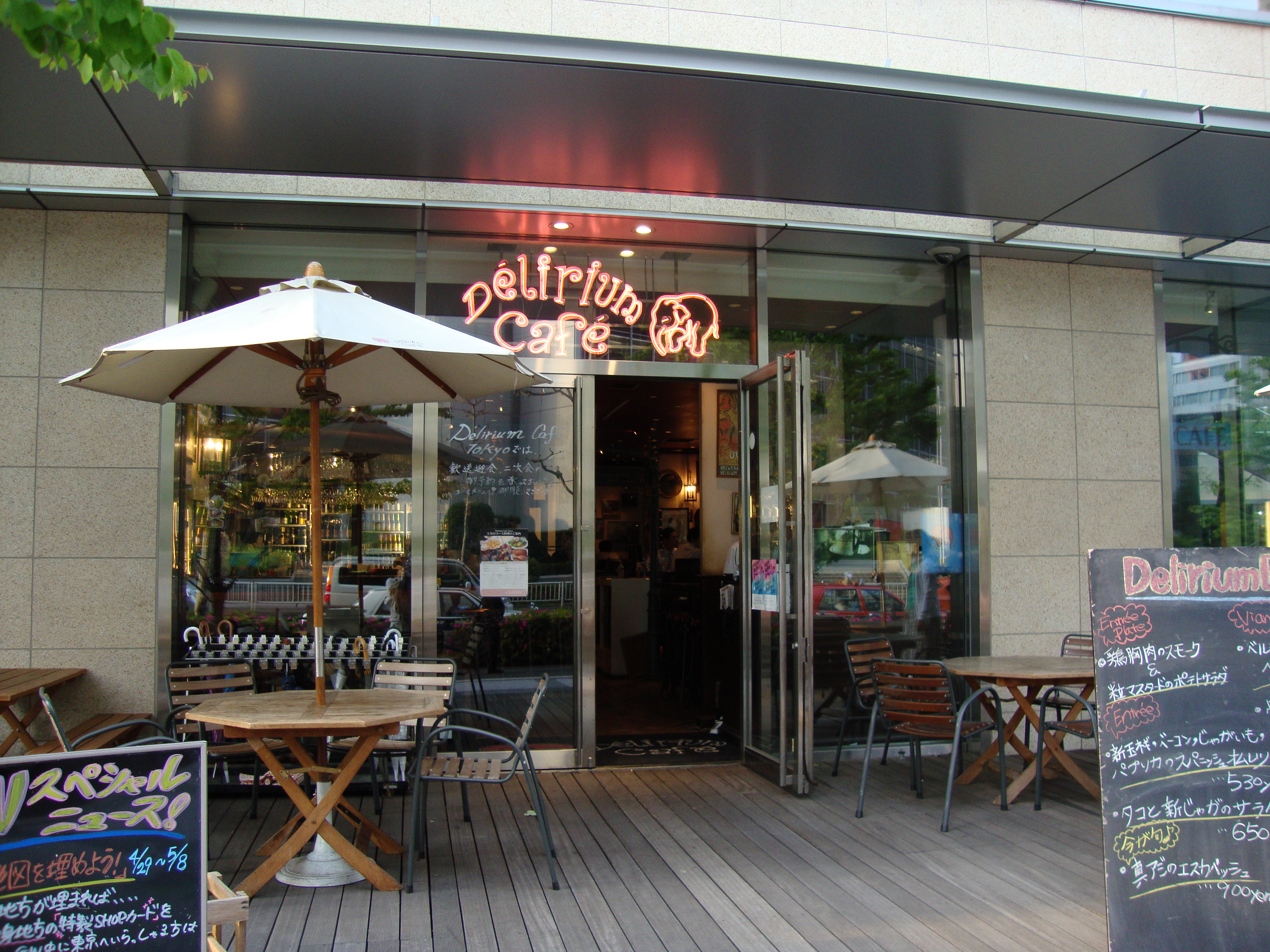 Entrance of the Delirium Cafe Tokyo